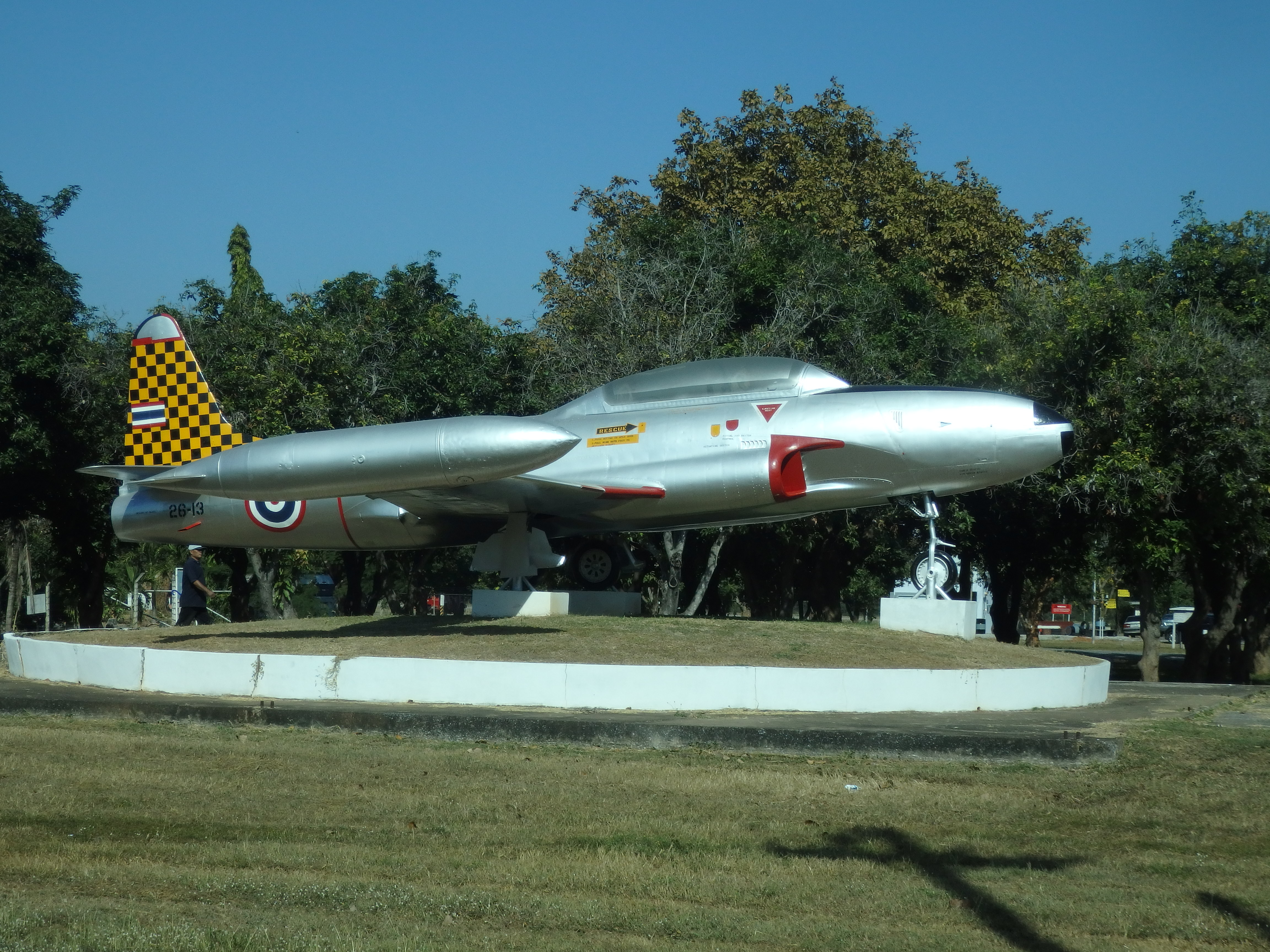 Nong Phai Lom, Mueang Nakhon Ratchasima District, Nakhon Ratchasima 30000, Thailand